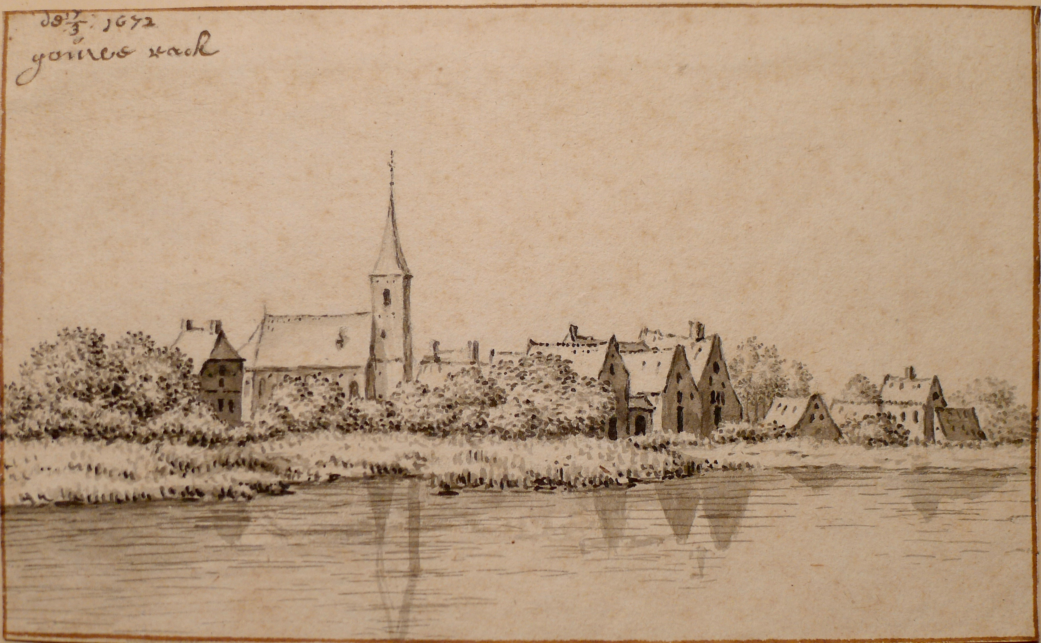 Gouderak in 1672, tekening Josua de Grave